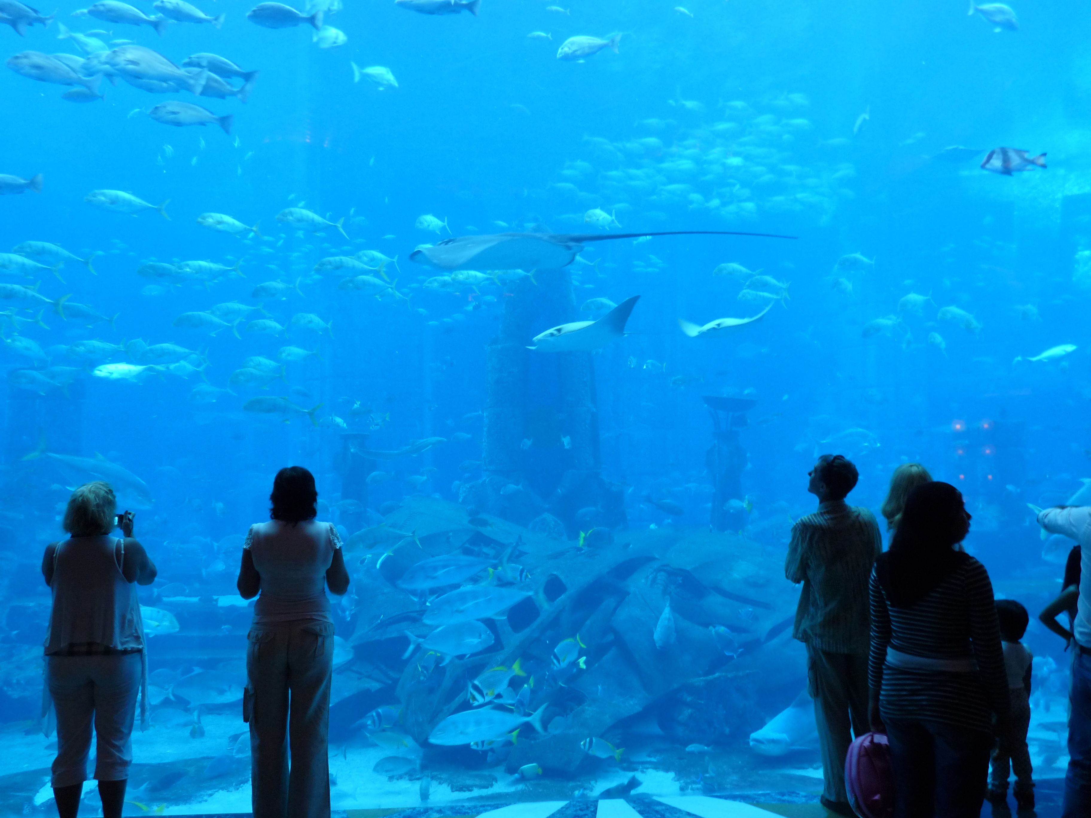 The Lost Chambers